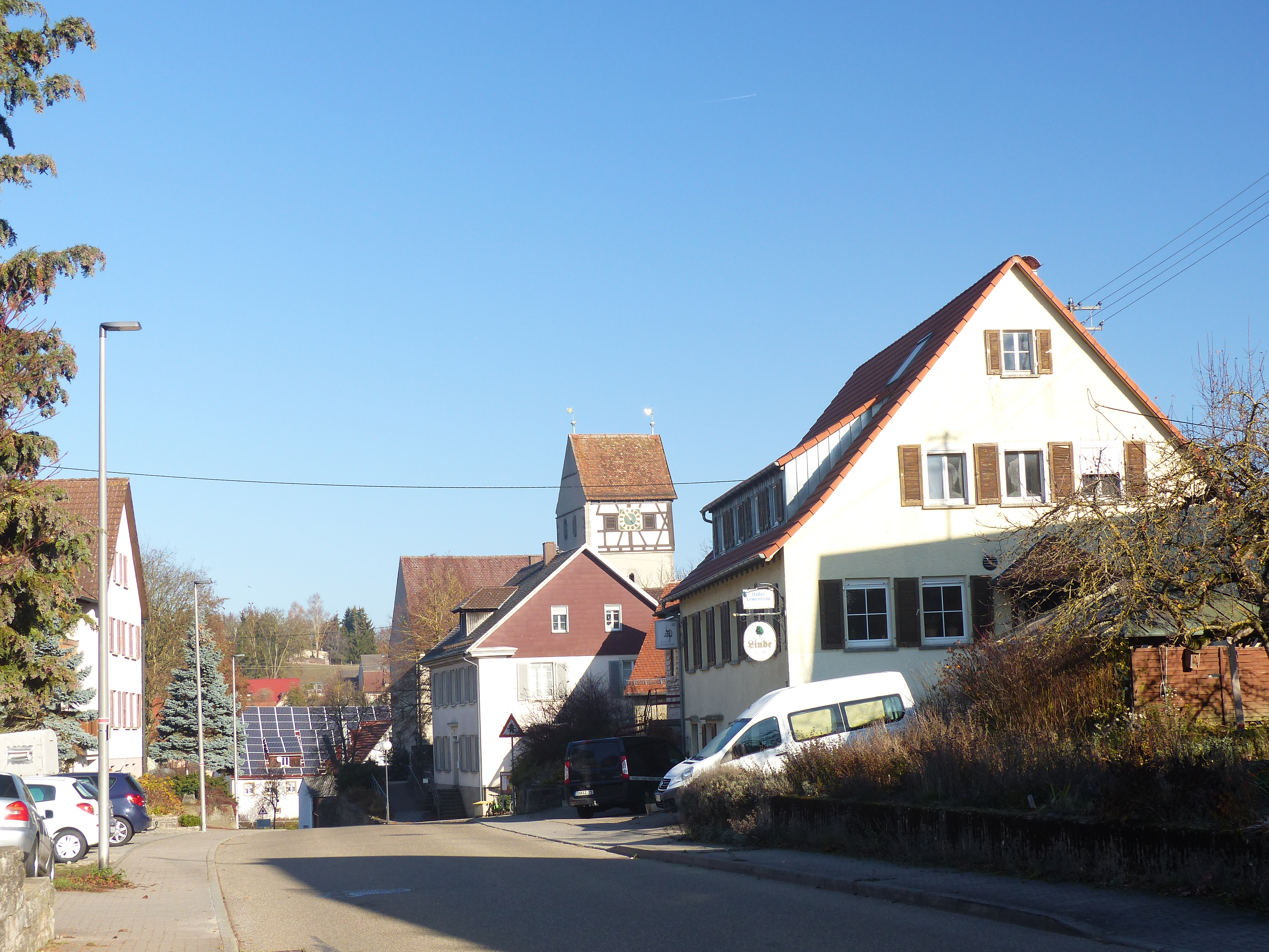 The village Waldtann, part of the municipality of Kreßberg